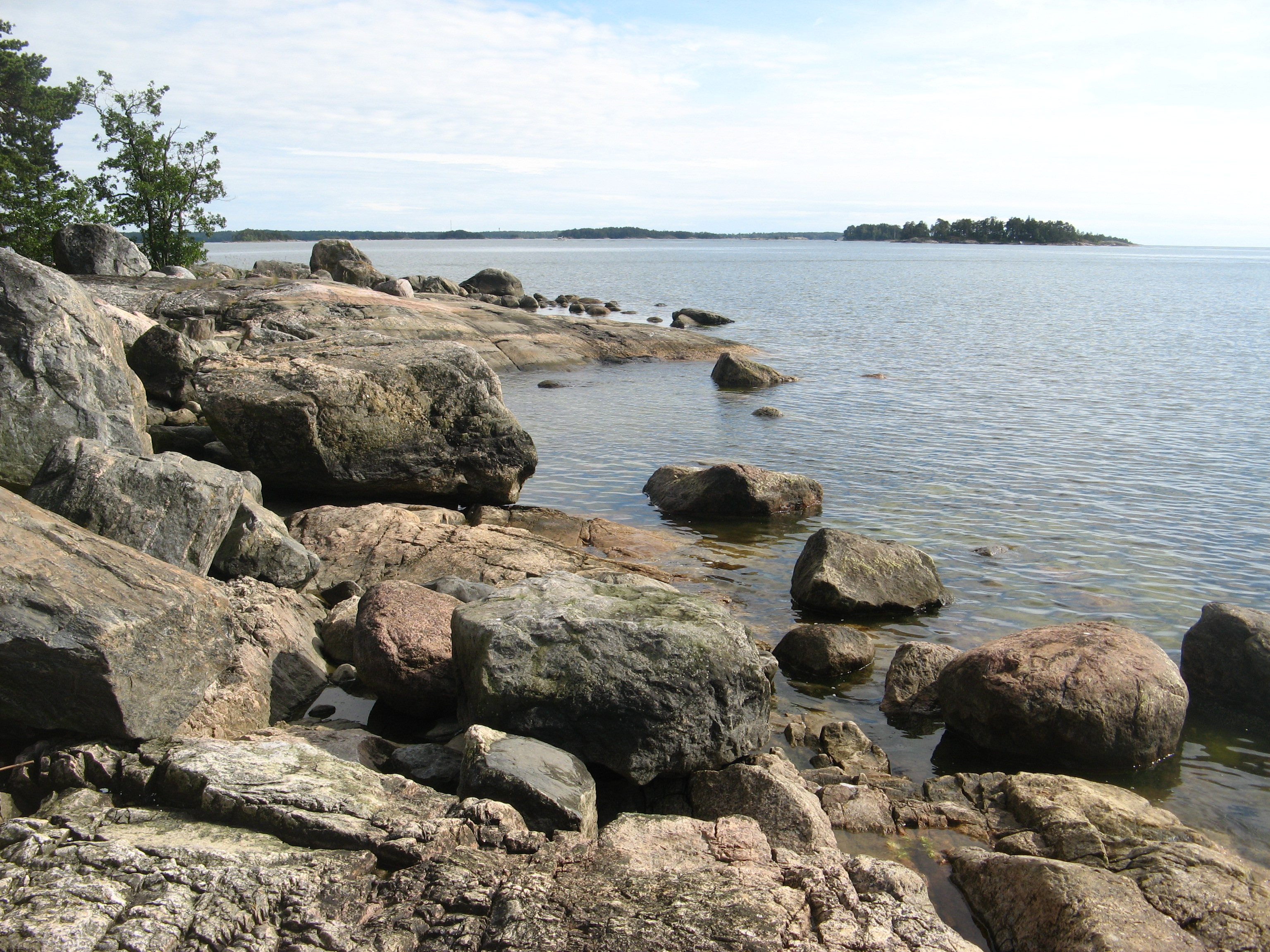 Gulf of Finland. Finnish archipelago: view to the south from Skata ledholmen in Sibbo, near Helsinki.